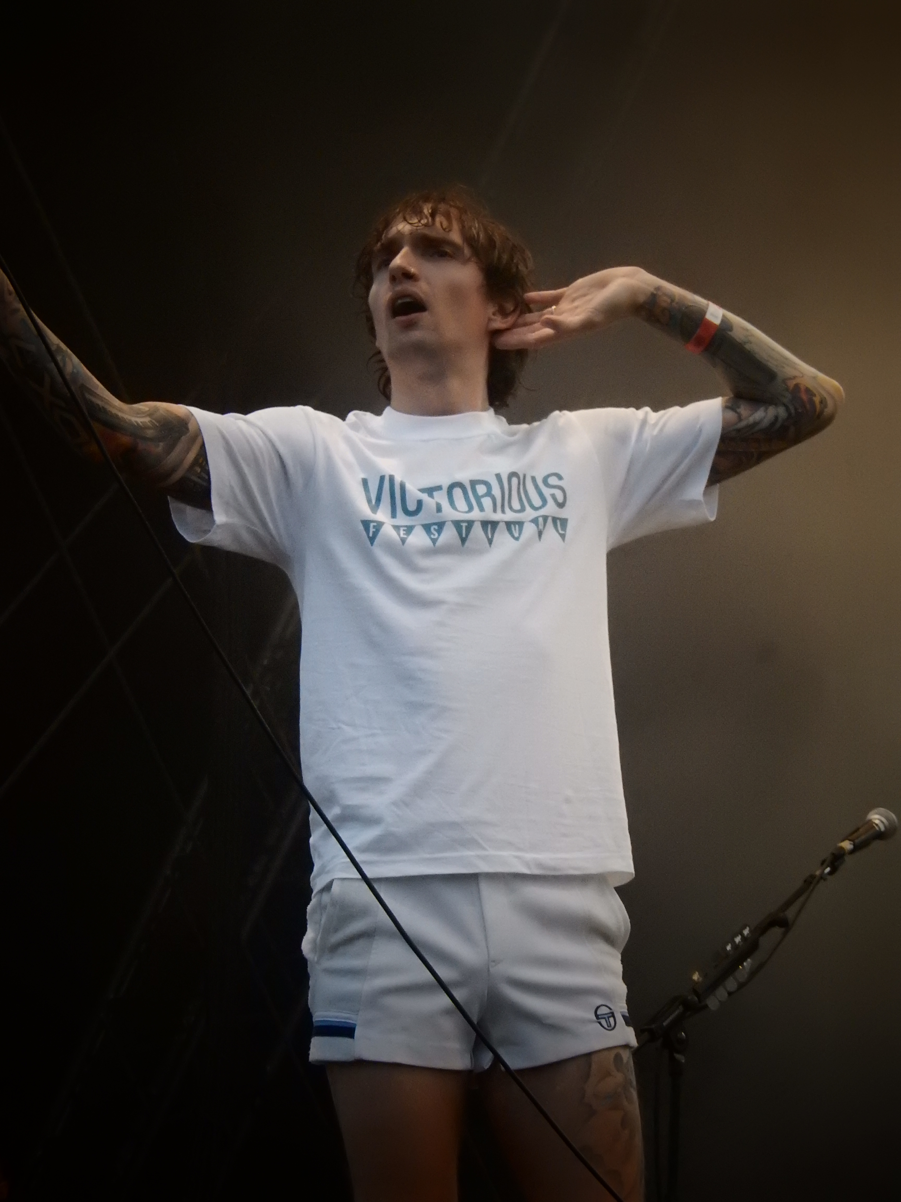 The Darkness, Victorious Festival, Portsmouth